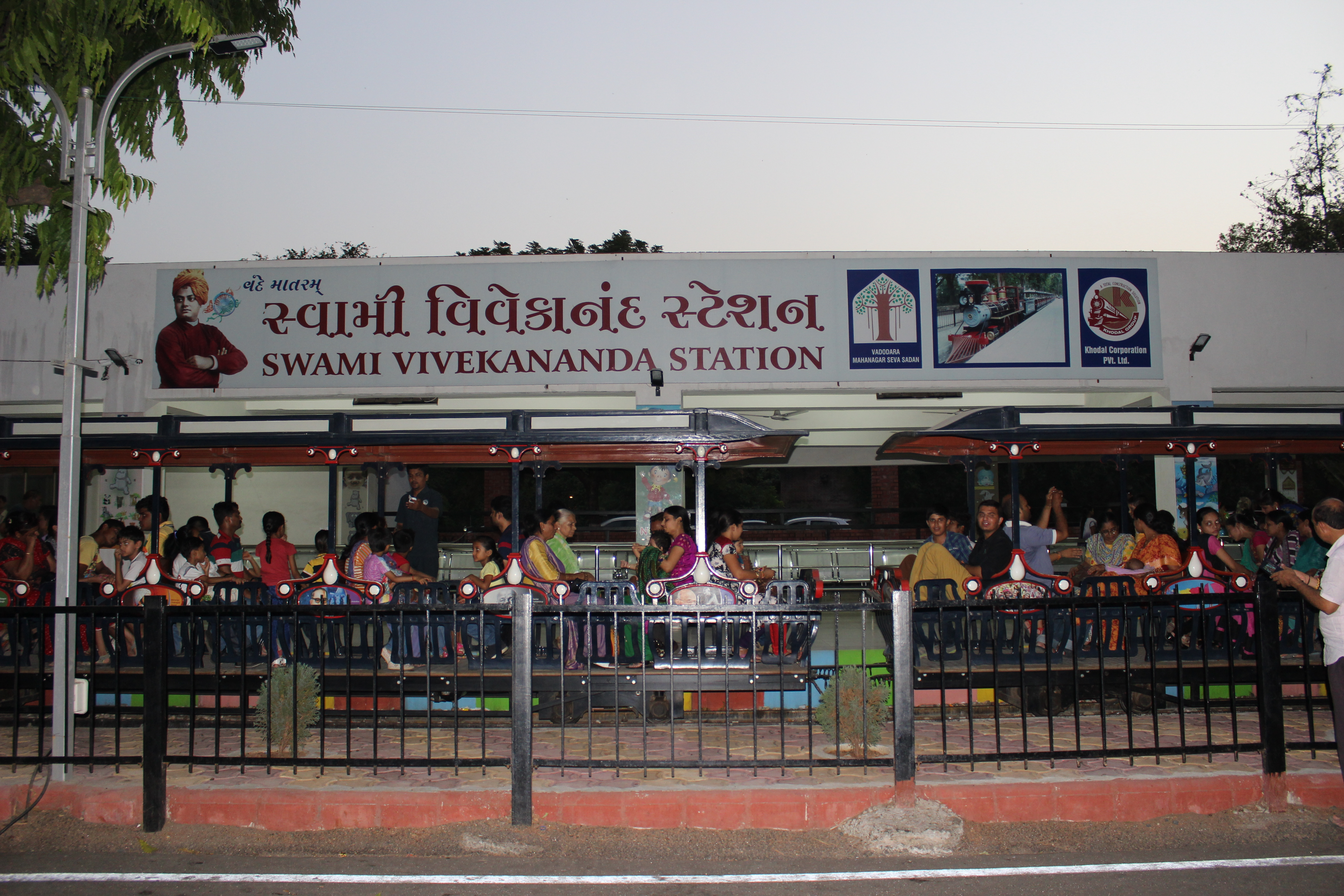 Joy Train Station, sayaji Baug - Vadodara ગુજરાતી: જોય ટ્રેન સ્ટેશન, સયાજી બાગ (કમાટી બાગ), વડોદરા